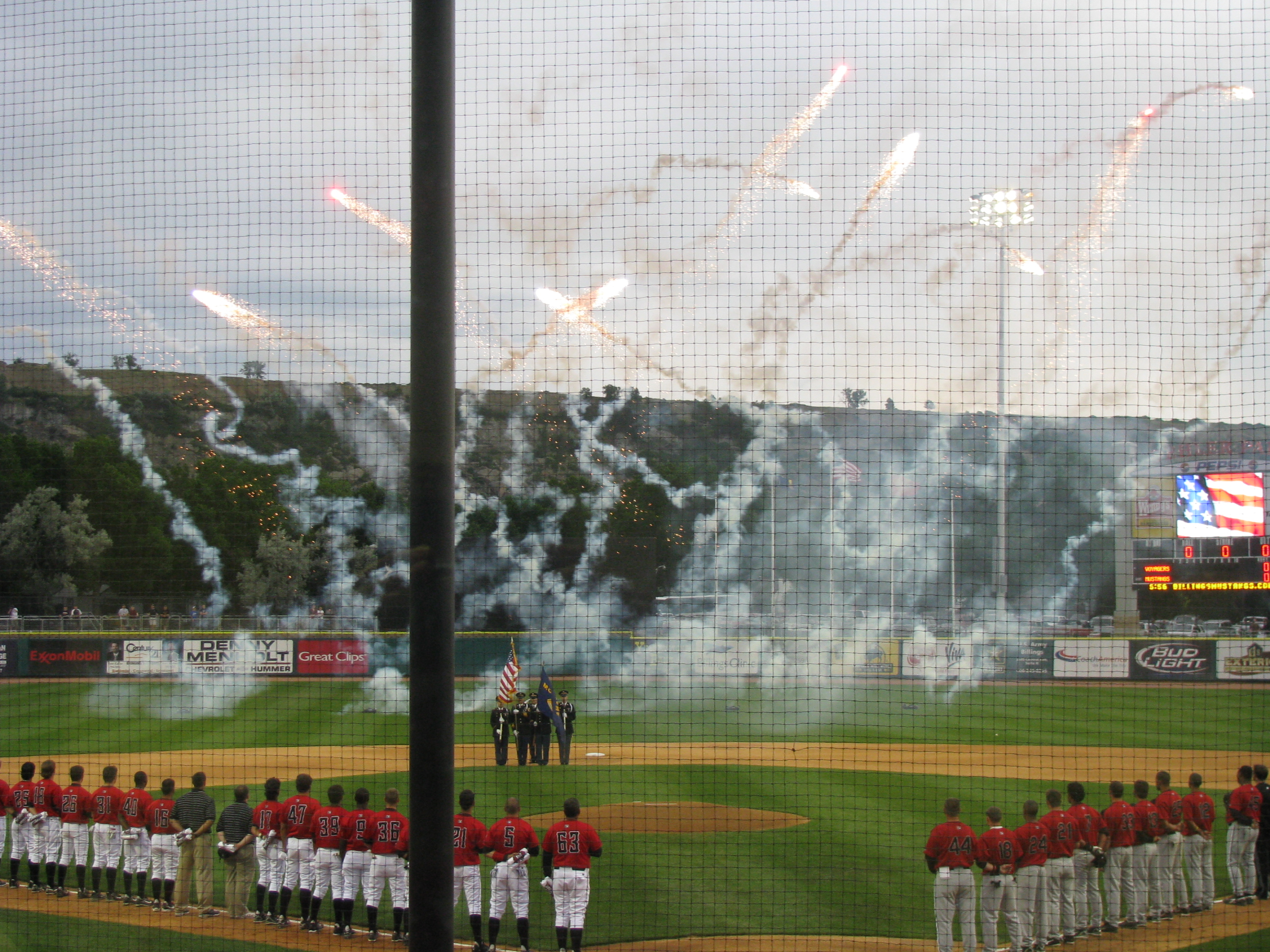 Taken during the fireworks intro at Dehler Park during the first Billings Mustangs game at the field.